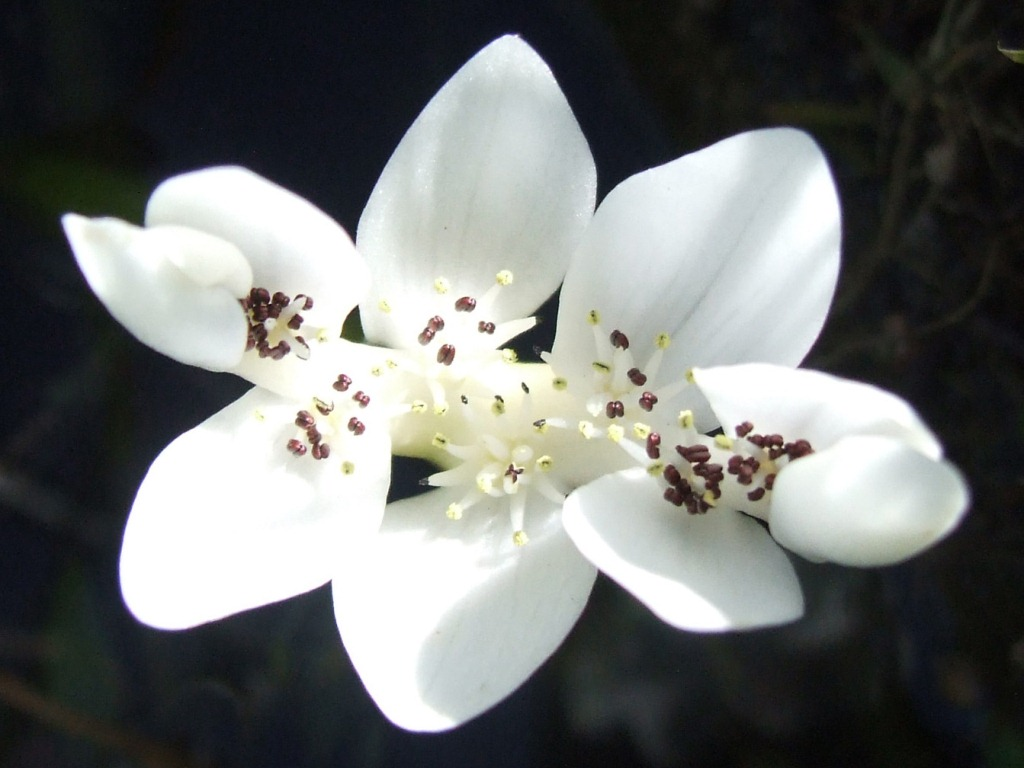 Aponogeton distachyos flower